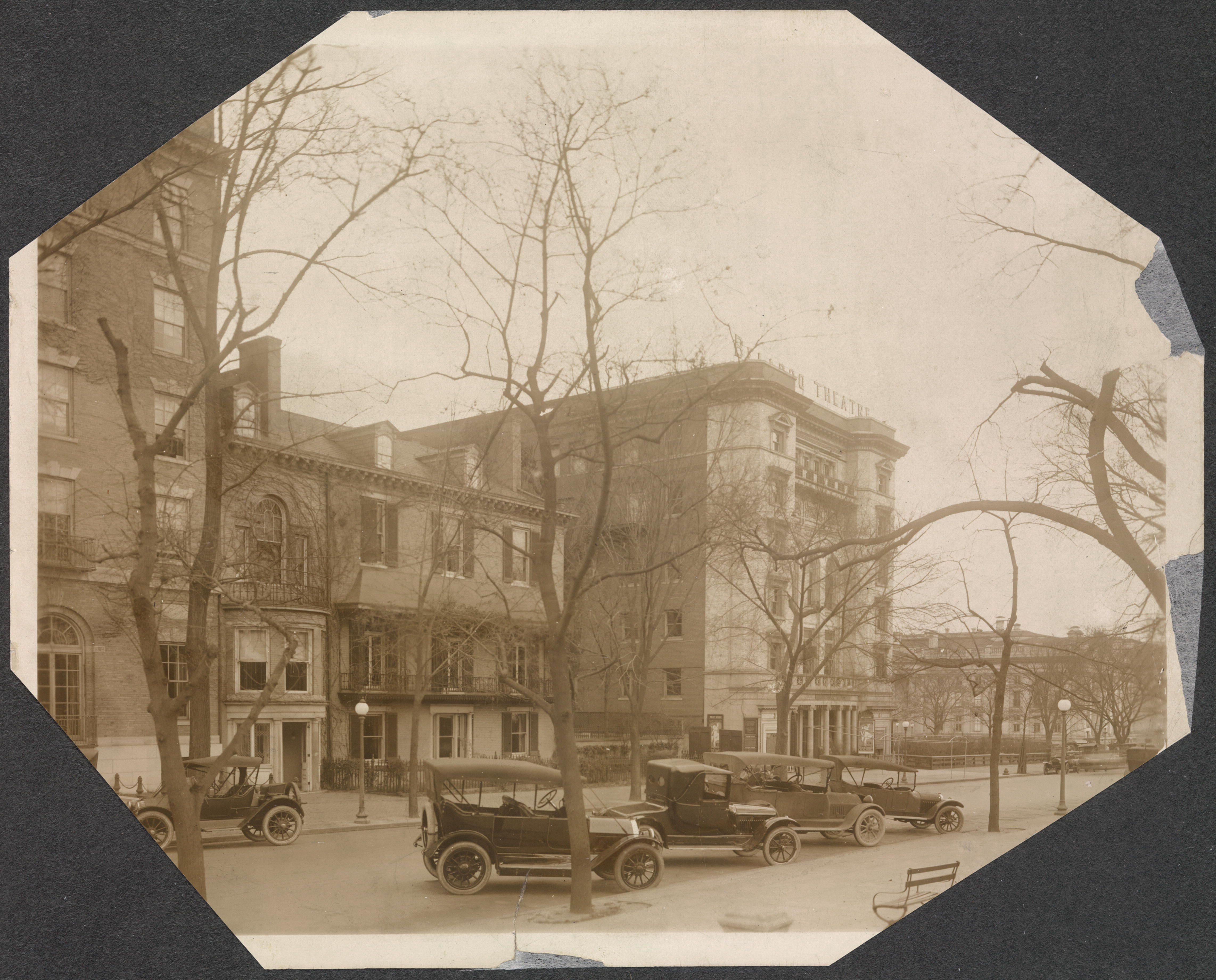 Summary: Photograph of row of buildings, including Cameron House, on a street, with cars in foreground.